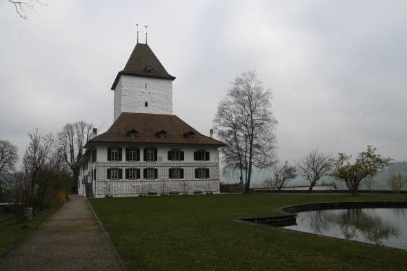 Wil Castle seen from the south.